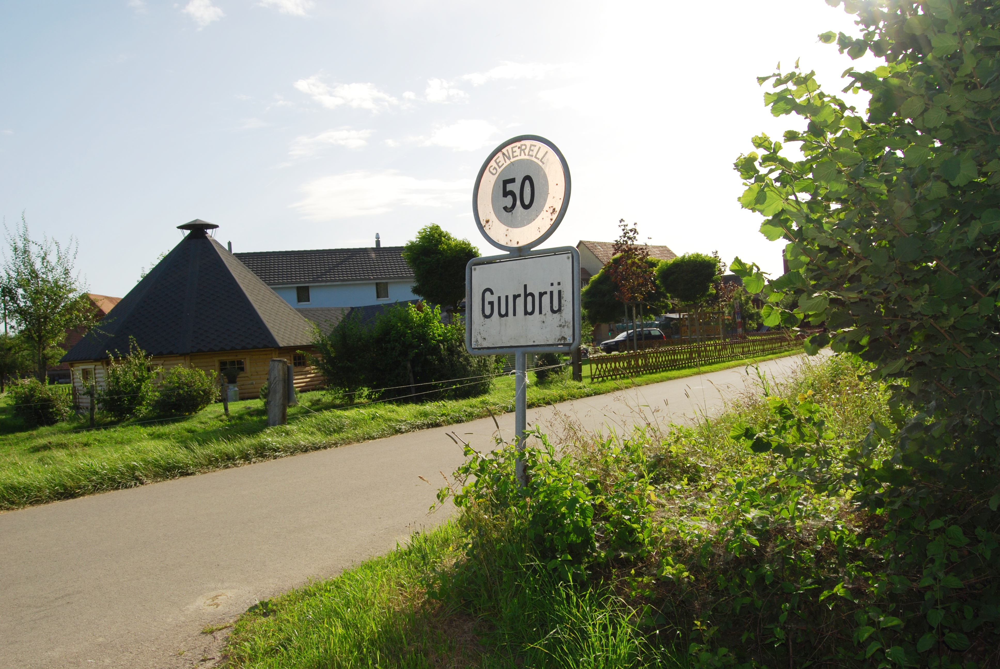 Gurbrü, canton of Bern, SwitzerlandEsperanto: Gurbrü, Kantono Berno, Svislando